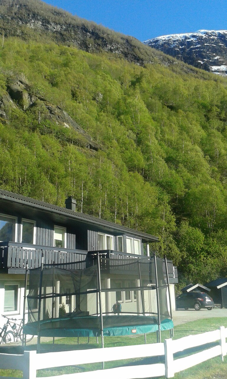 14 May 2015 Årdal Norway